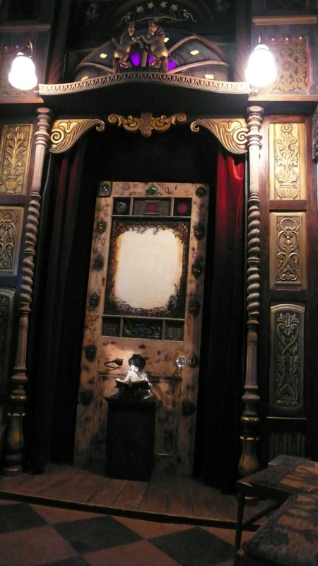 The Theatre of Small Convenience, the world's smallest theatre, located in Malvern, Worcestershire, England, converted from a Victorian public convenience